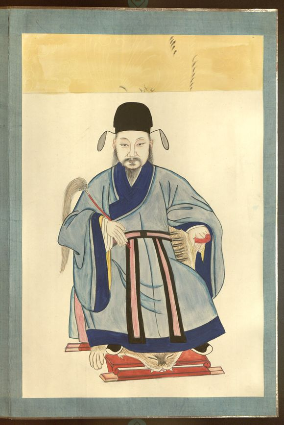 Mu Dong, a local commander of Lijiang